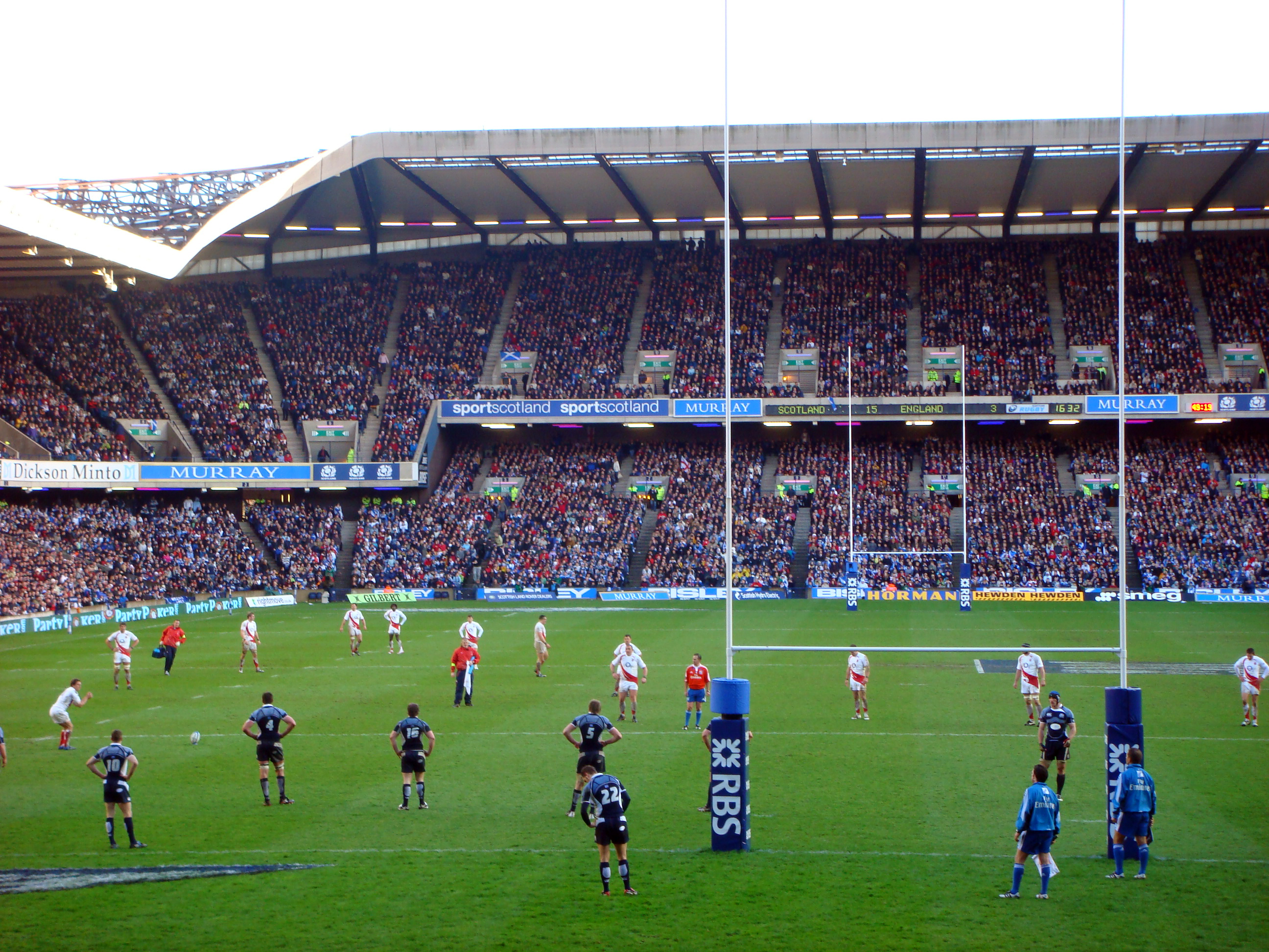 Jonny Wilkinson with English team ready to kick a successful penalty at the Scotland versus England Six Nations rugby